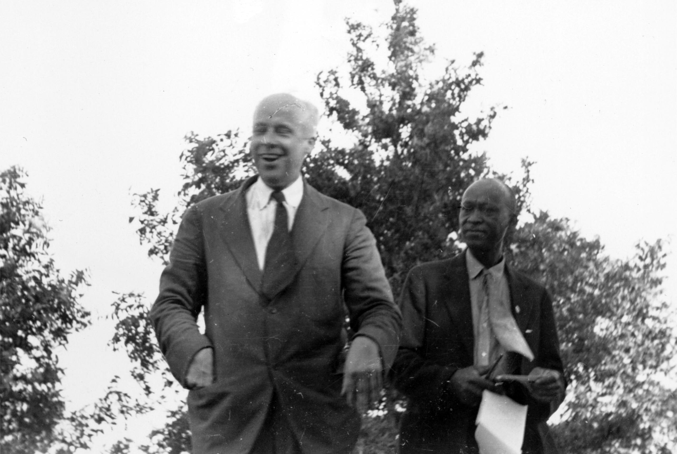 Title: Norman Thomas speaking at an outdoor STFU meeting. An unidentified Black man stands with him on stage Date: 1937 Photographer: Louise Boyle Photo ID: 5859pb2f19lp800g Collection: Louise Boyle. Southern Tenant Farmers Union Photographs, 1937 and 1982 Repository: The Kheel Center for Labor-Management Documentation and Archives in the ILR School at Cornell University is the Catherwood Library unit that collects, preserves, and makes accessible special collections documenting the history of the workplace and labor relations. Notes: Copyright: The copyright status of this image is unknown. It may also be subject to third party rights of privacy or publicity. Images are being made available for purposes of private study, scholarship, and research. The Kheel Center would like to learn more about this image and hear from any copyright owners who are not properly identified so that we may make the necessary corrections. Tags: Kheel Center for Labor-Management Documentation and Archives,Cornell University Library,African Americans, Meetings, Speeches, Public Figures